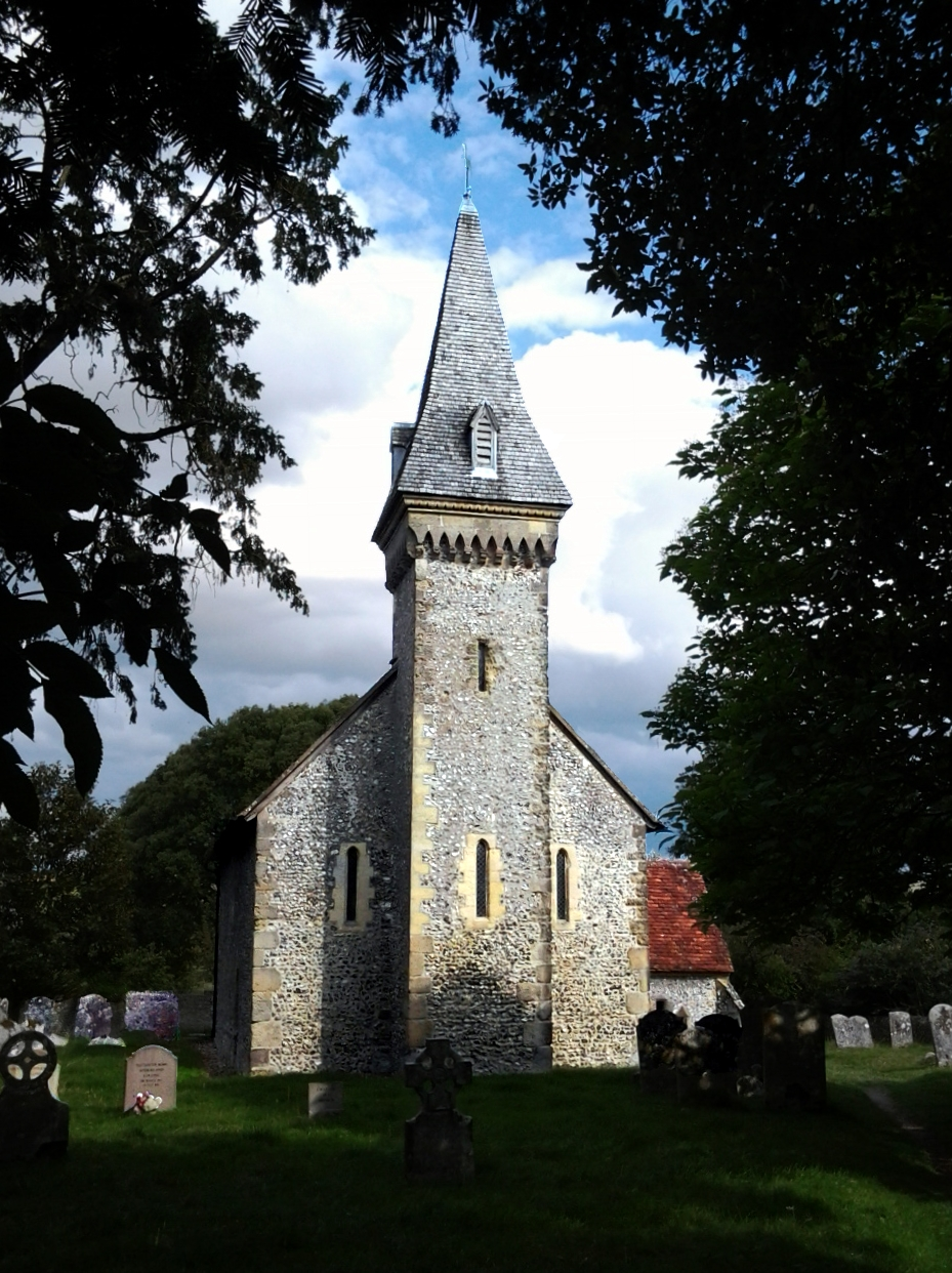 St Leonard's parish church, South Stoke, West Sussex, seen from the west